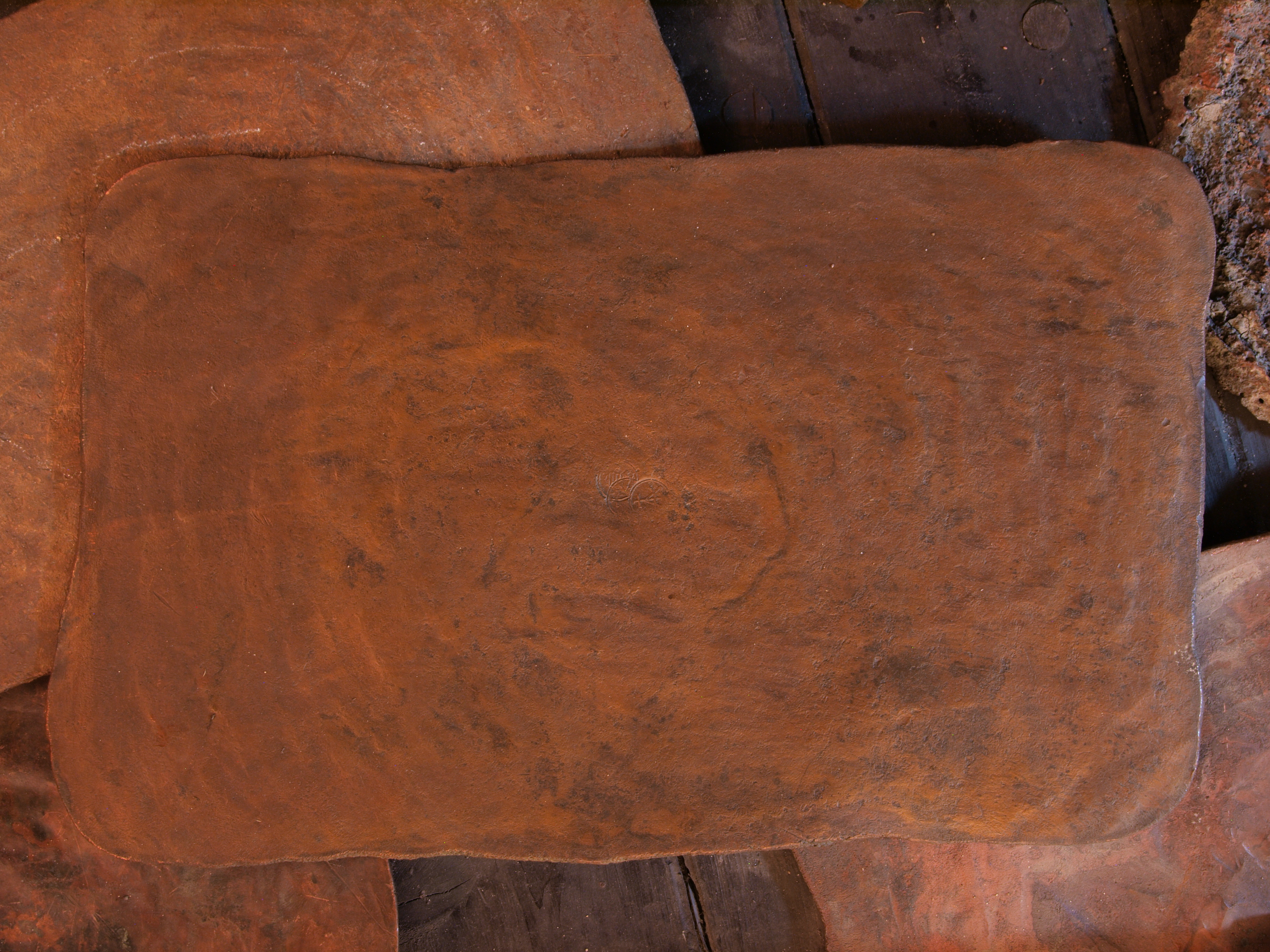 A rectangular hammered copper ingot. Found 1981 in the wrek of a sunken sailing boat of the 17th century in river Elbe near Wittenbergen in Hamburg-Rissen, Germany. Photographed at Museum für Hamburgische Geschichte, Hamburg, Germany